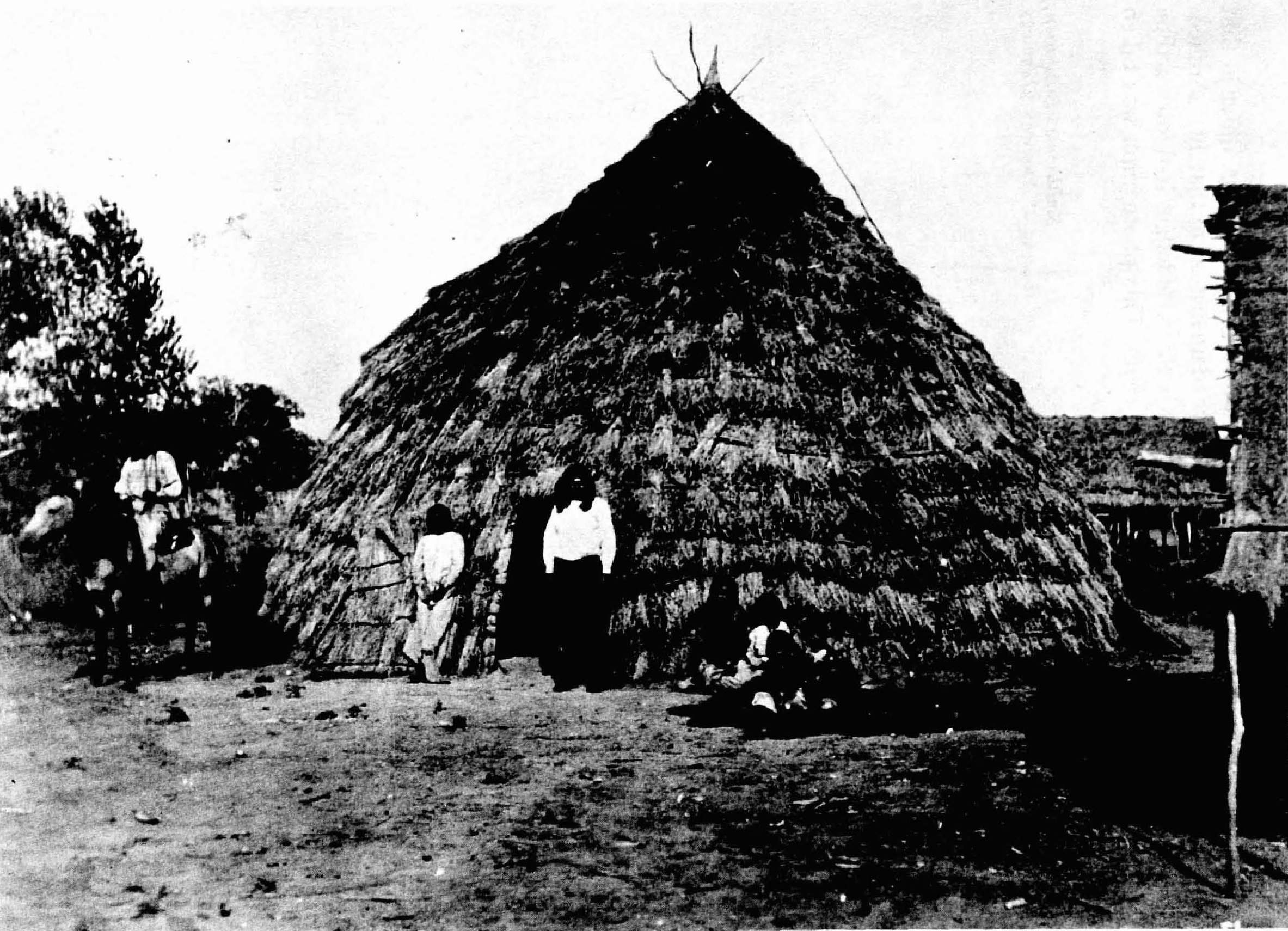 Wichita grass house “The Wichitas made a permanent lodge by covering a pole frame with rush thatching. The only opening was the door, so that the interior was dark and sooty.[...]” —Smithsonian Instution, Bureau of American Ethnology. In: Wilbur Sturtevant Nye, Plains Indian raiders : the final phases of warfare from the Arkansas to the Red River, with original photographs by William S. Soule. University of Oklahoma Press, 1st edition, 1968, ISBN 0806111755, p398.